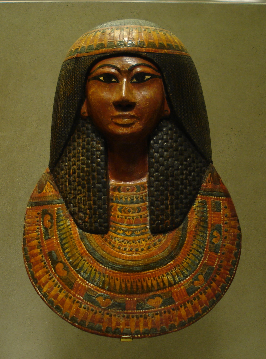 Mummy mask of Khonsu, son of Sennedjem, from the tomb of Sennedjem in Deir el-Madinah. New Kingdom, Dynasty XIX, early reign of Ramesses II, c. 1304-1237 BC.